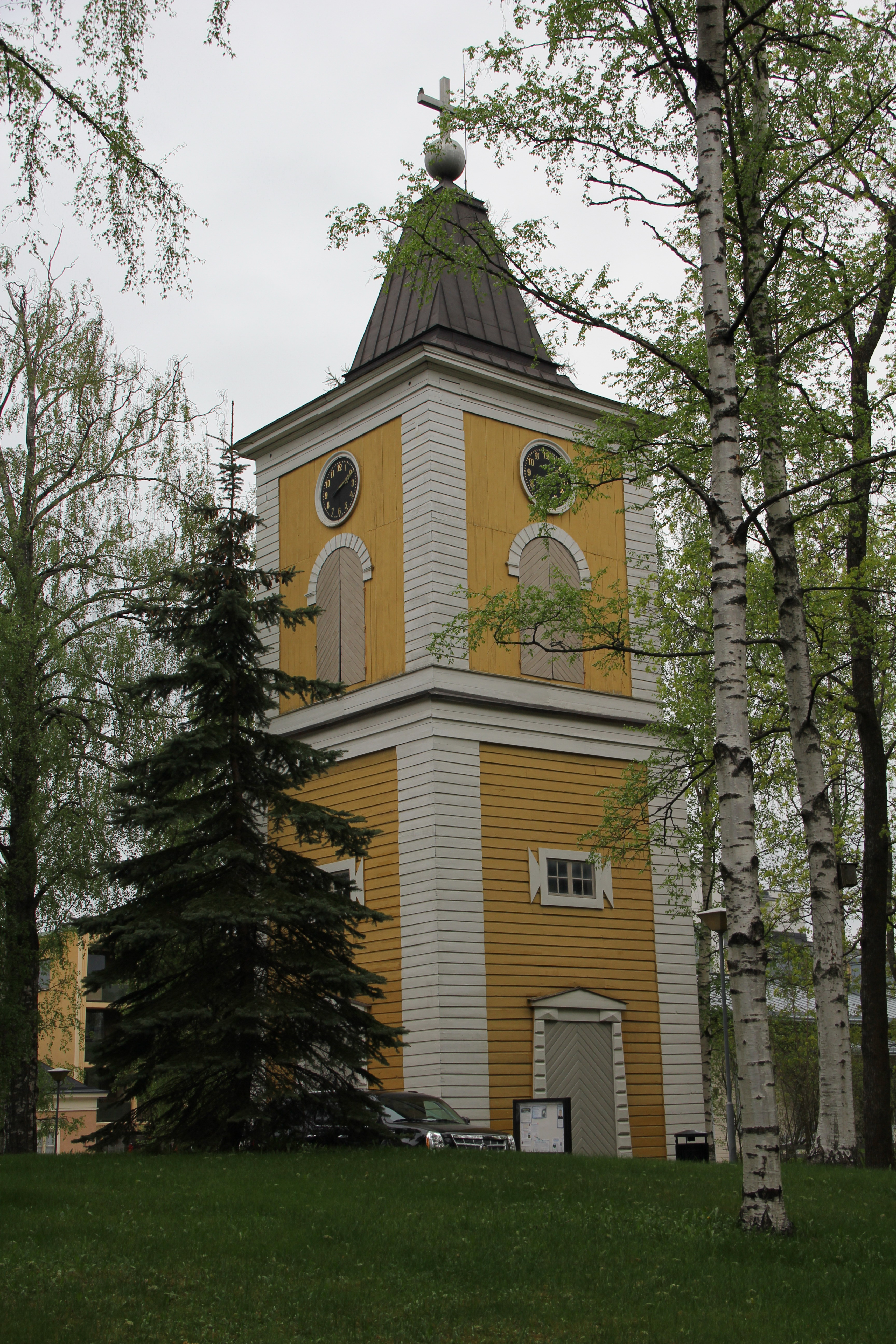 Heinola church belfry, Heinola, Finland. Designed by architect Carl Ludvig Engel and completed in 1842.